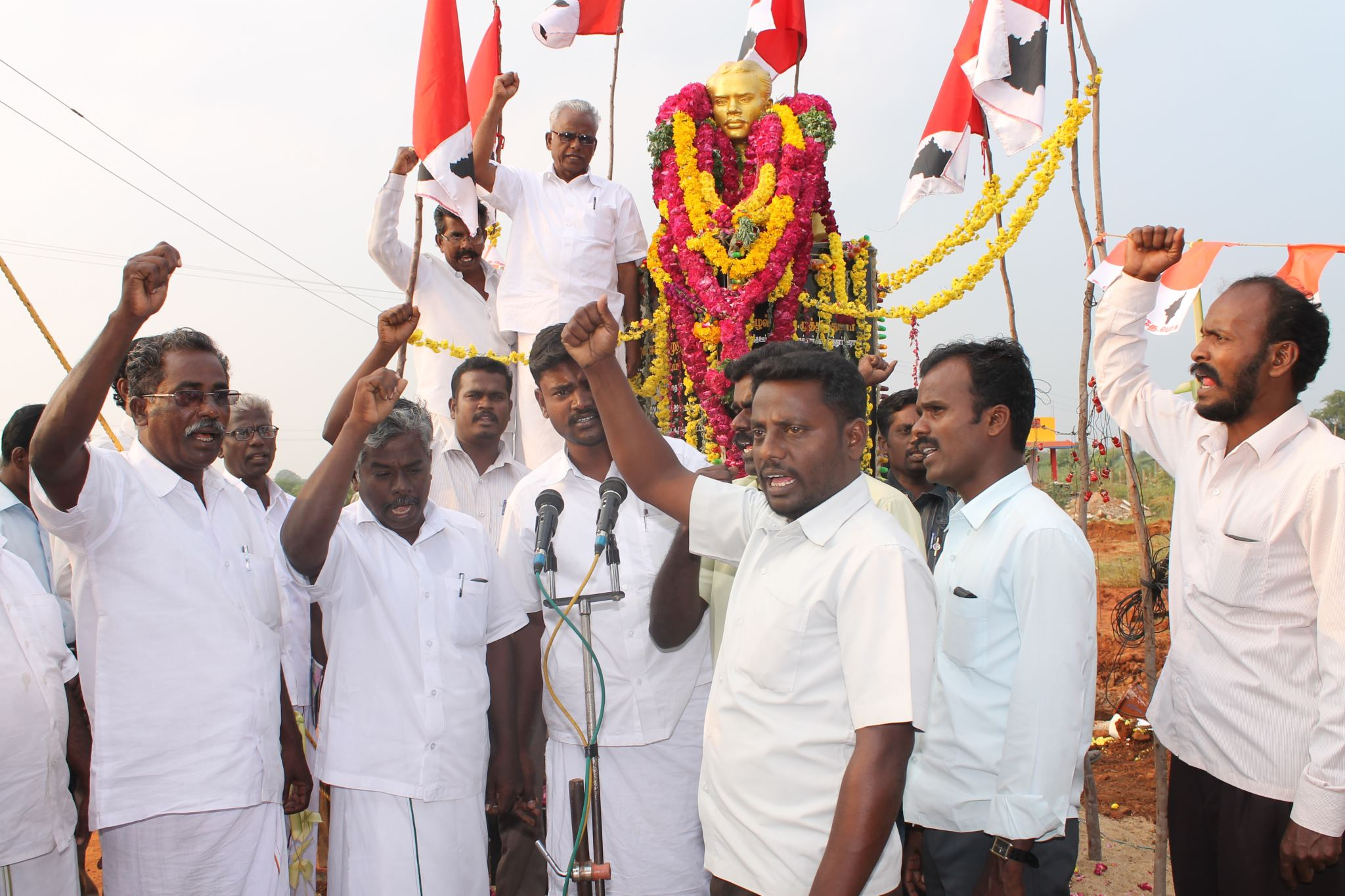 மாவீரன் முத்துக்குமாருக்கு முதன் முதலாக தமிழகத்தில் சிலை திறந்து அவரை பெருமைப்படுத்தியது, தமிழ்த் தேசப் பொதுவுடைமைக் கட்சி.